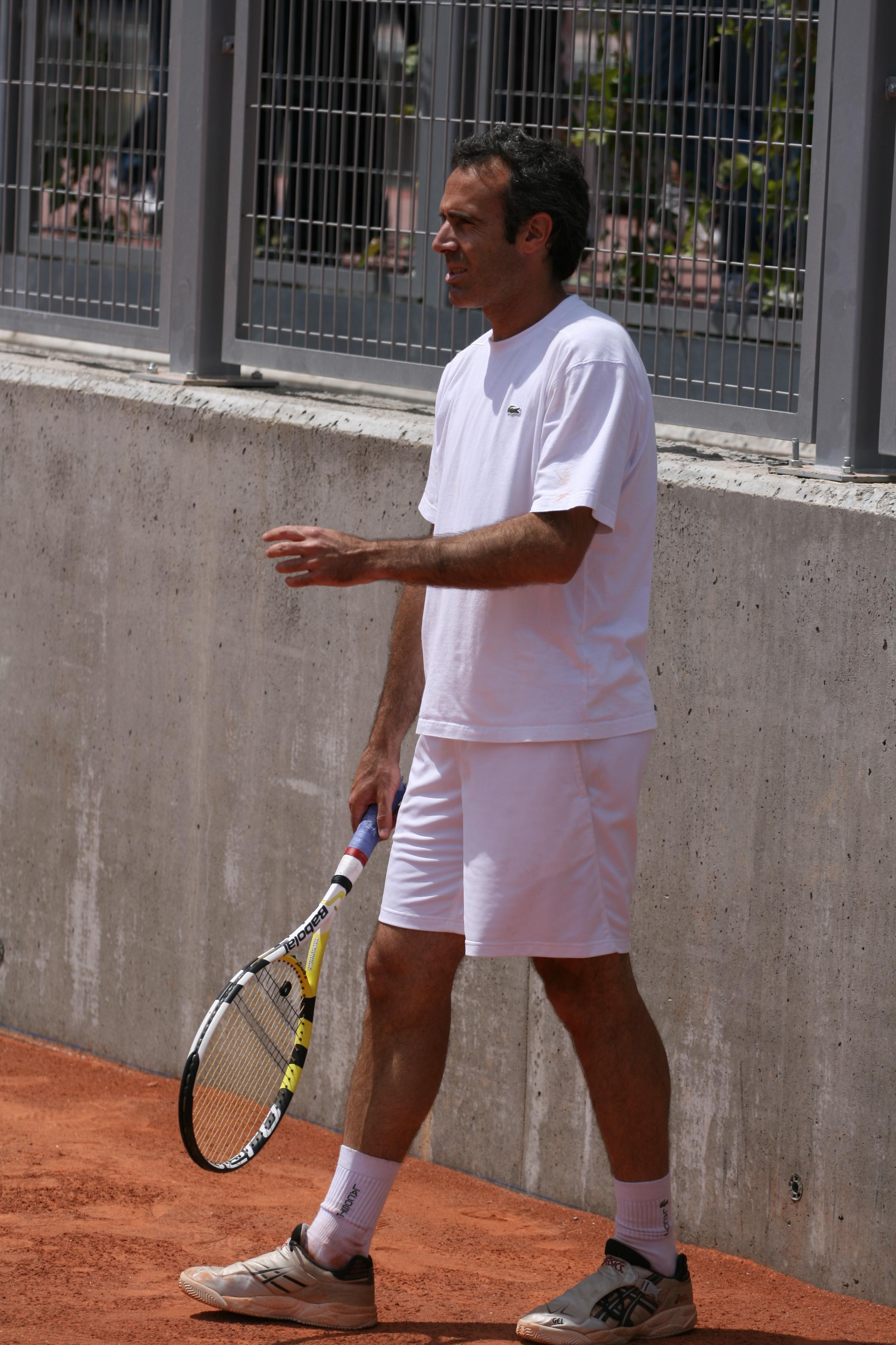 Àlex Corretja training with Andy Murray during the 2009 Mutua Madrileña Madrid Open